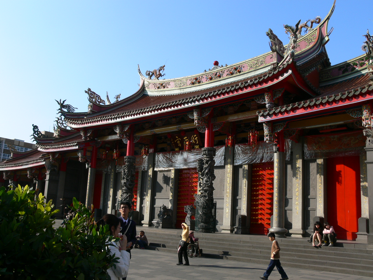 Xingtian Temple, Taipei, Taiwan.中文（台灣）: 臺灣台北市行天宮。